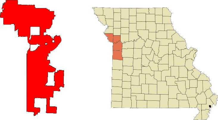 changed format